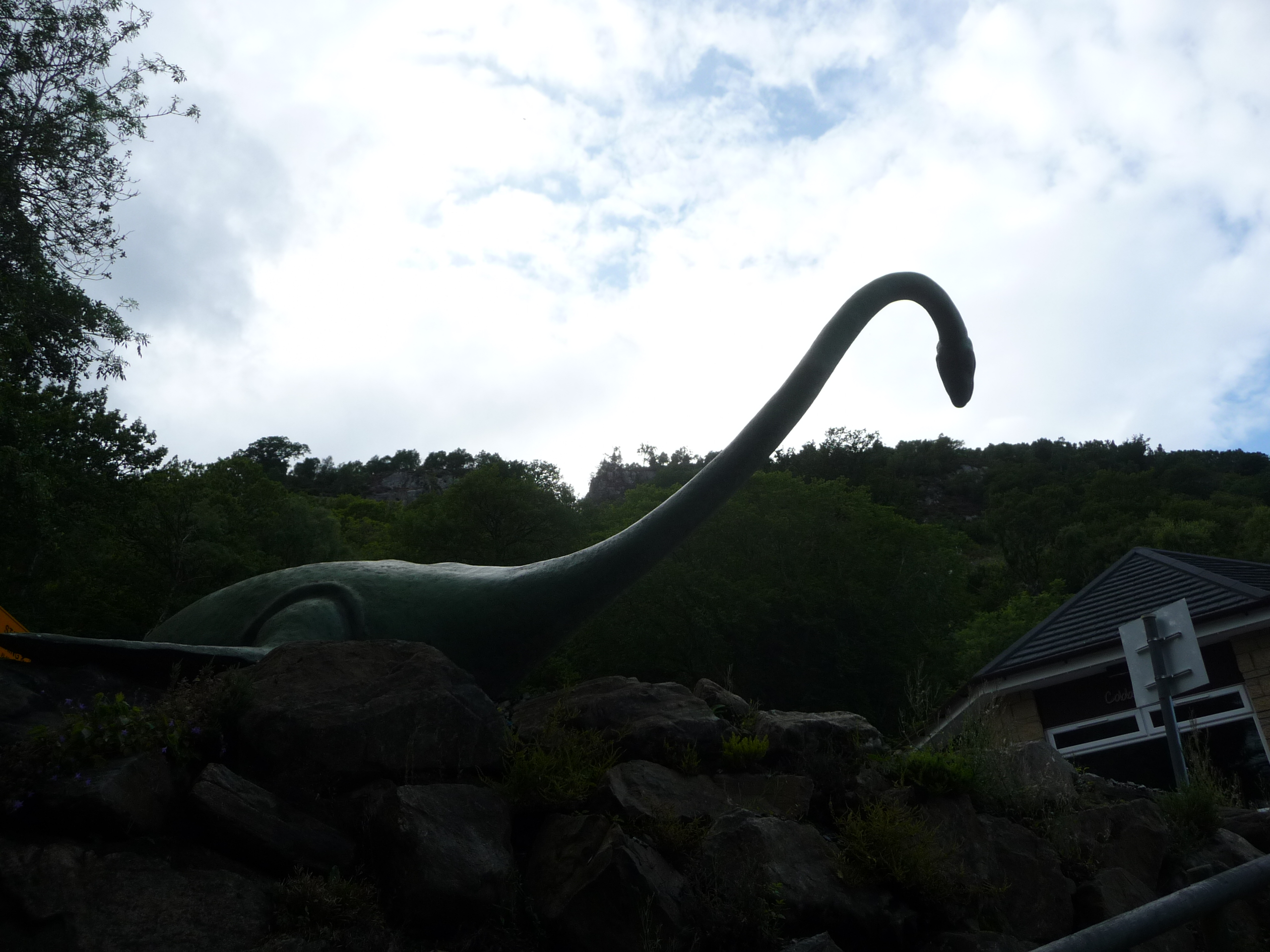 Loch Ness Monster